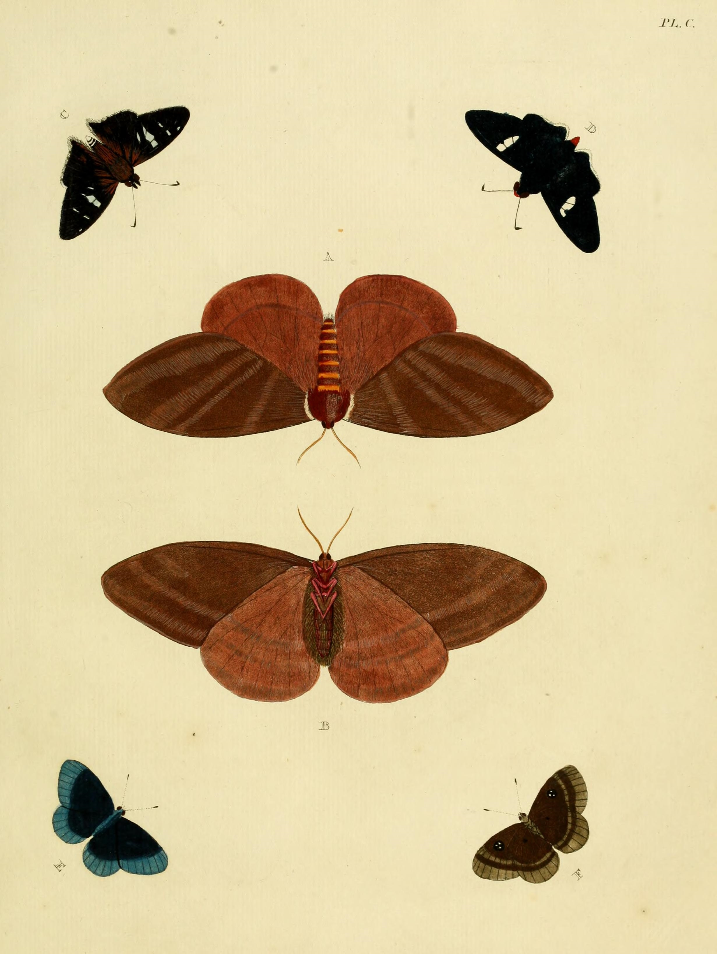 Plate C (text) A, B: "(Phalaena Bombyces) Somniculosa", female ( = Dirphia somniculosa, iconotype?), see Butterflies and Moths of the World , NMH and Home of Ichneumonoidea C: "(Papilio) Corytus" ( = Tarsoctenus corytus, iconotype?), see Funet. Photos at Barcode of Life. Also on plate 245 E as "(Papilio) Pyramus". D: "(Papilio) Arinas" ( = Pyrrhopyge arinas, iconotype?), see Funet E, F: "(Papilio) Ulrica" ( = Mesosemia ulrica, iconotype?), see Funet